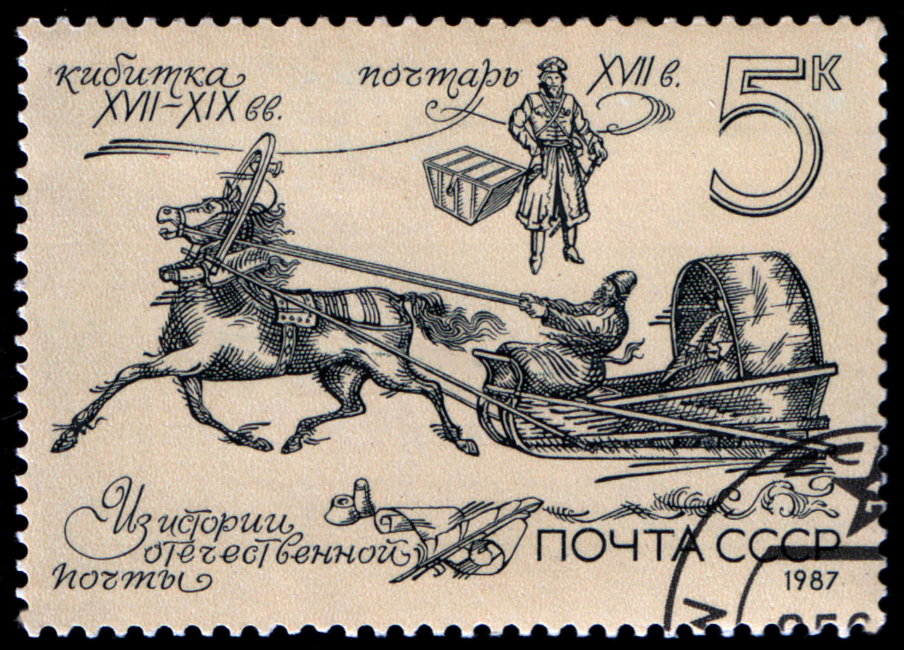 Stamp of USSR , History of domestic post. Postman (18 c.), a tilt cart (18-19 c.), 1987